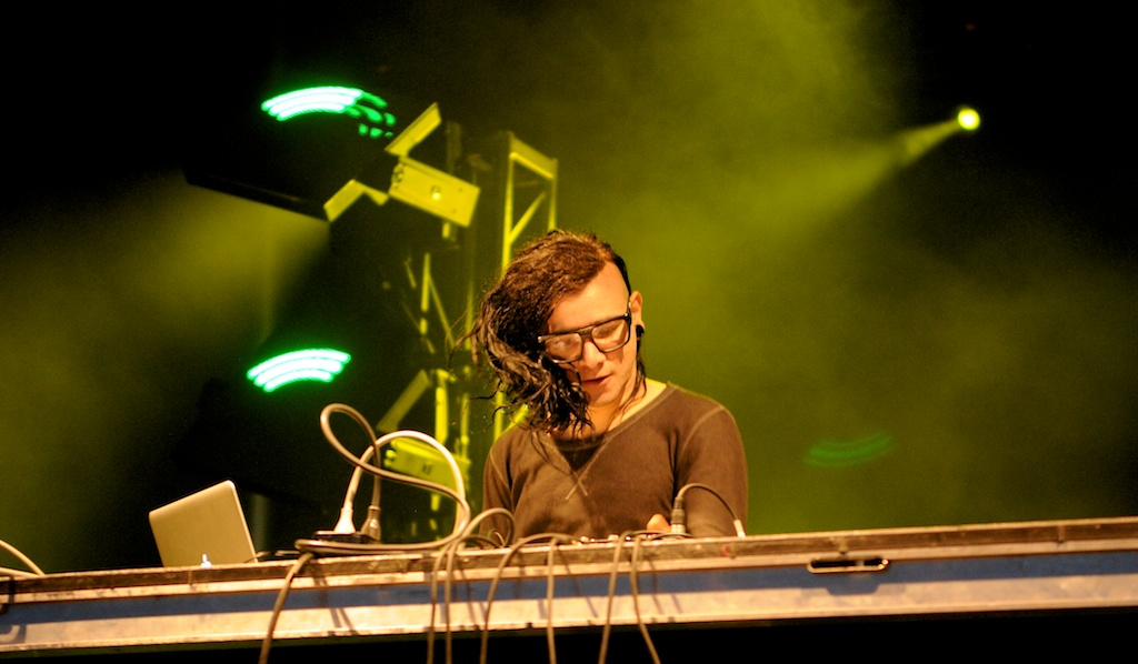 Skrillex performing live at Cisco Ottawa Bluesfest 2011.